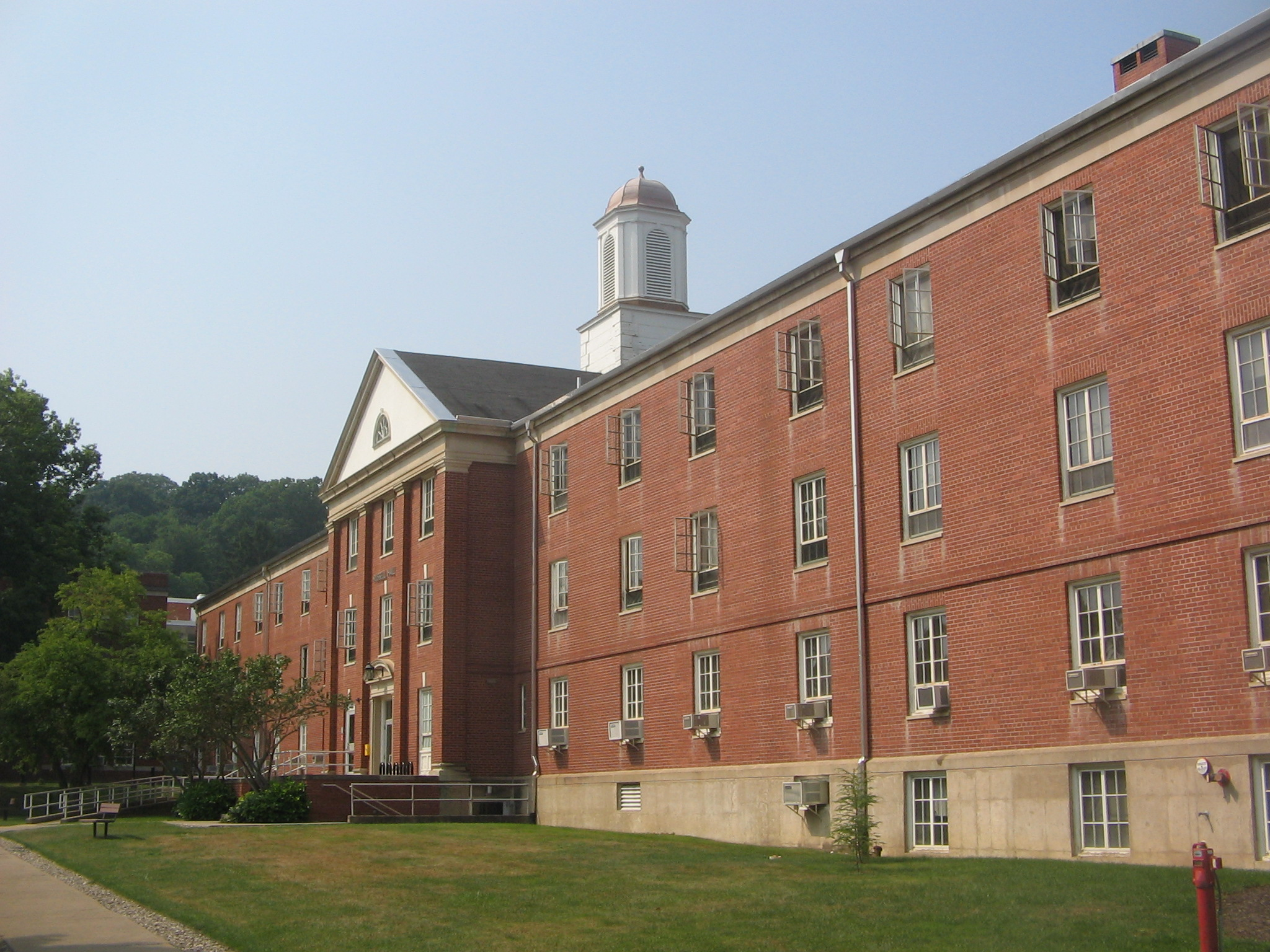 Russell Hall at Lock Haven University, in Lock Haven, Clinton County, Pennsylvania, USA